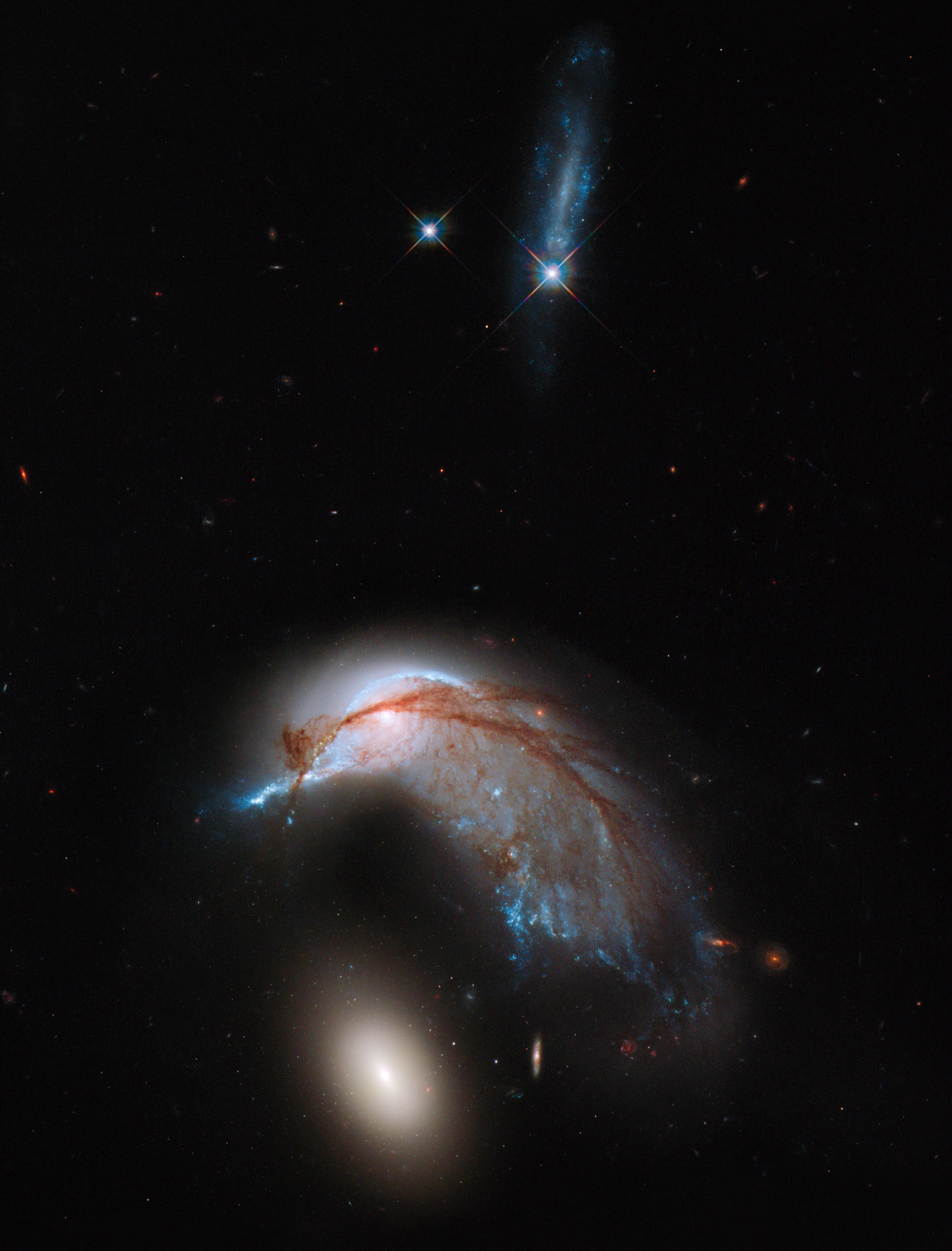 Hubble image of Arp 142 This image shows the two galaxies interacting. NGC 2936, once a standard spiral galaxy, and NGC 2937, a smaller elliptical, bear a striking resemblance to a penguin guarding its egg. This image is a combination of visible and infrared light, created from data gathered by the NASA/ESA Hubble Space Telescope Wide Field Planetary Camera 3 (WFC3). Credit: NASA, ESA and the Hubble Heritage Team (STScI/AURA) About the Object Name: Arp 142, NGC 2936, NGC 2937 Type: • Local Universe : Galaxy : Type : Interacting • Hubble Images Videos • Galaxies Images/Videos Distance: 400 million light years Colours & filters Band Wavelength Telescope Optical B 475 nm Hubble Space Telescope WFC3 Optical V 606 nm Hubble Space Telescope WFC3 Infrared I 814 nm Hubble Space Telescope WFC3 .